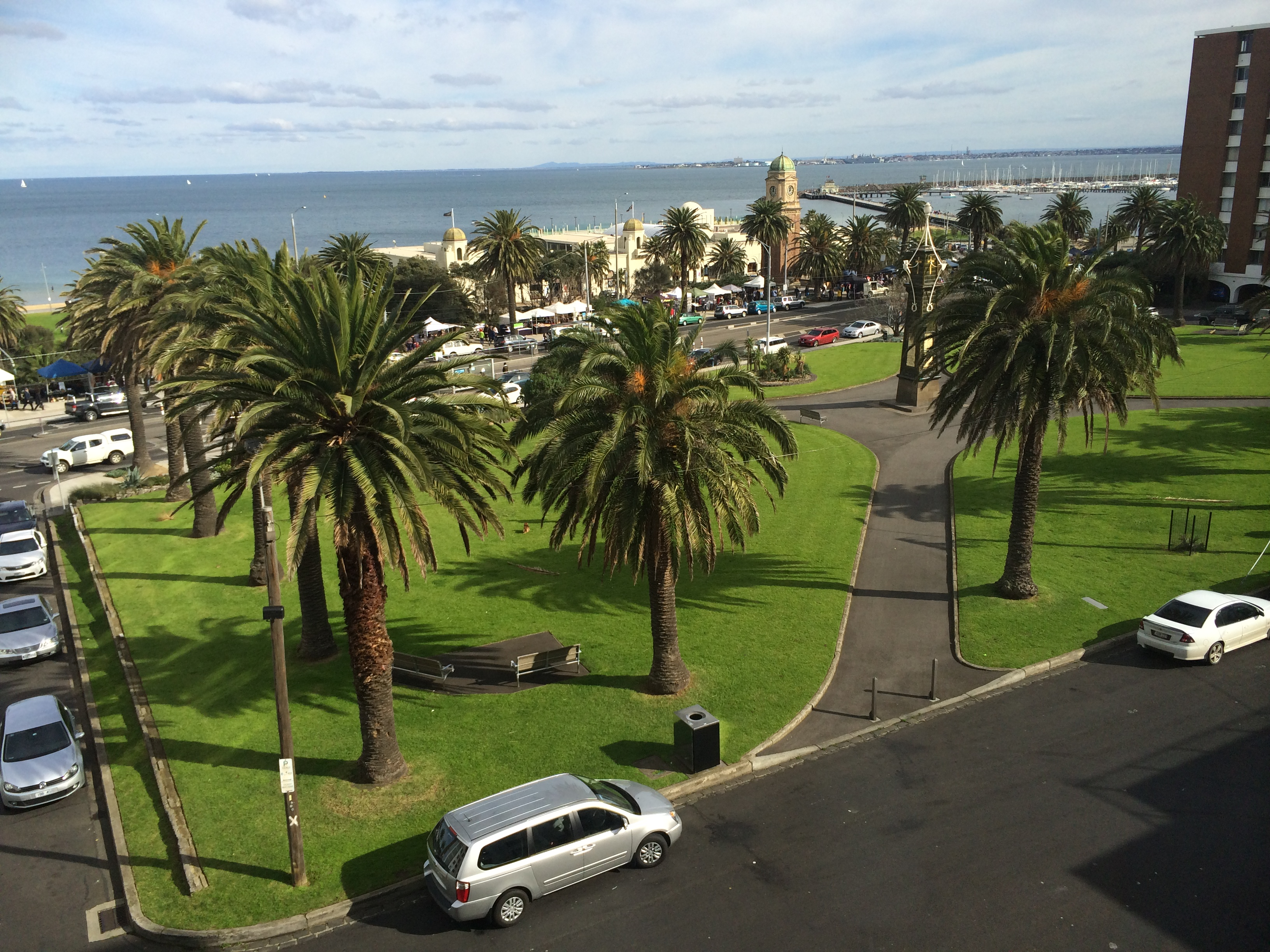 Albert Square Park, St Kilda July2014 taken from Novotel Hotel